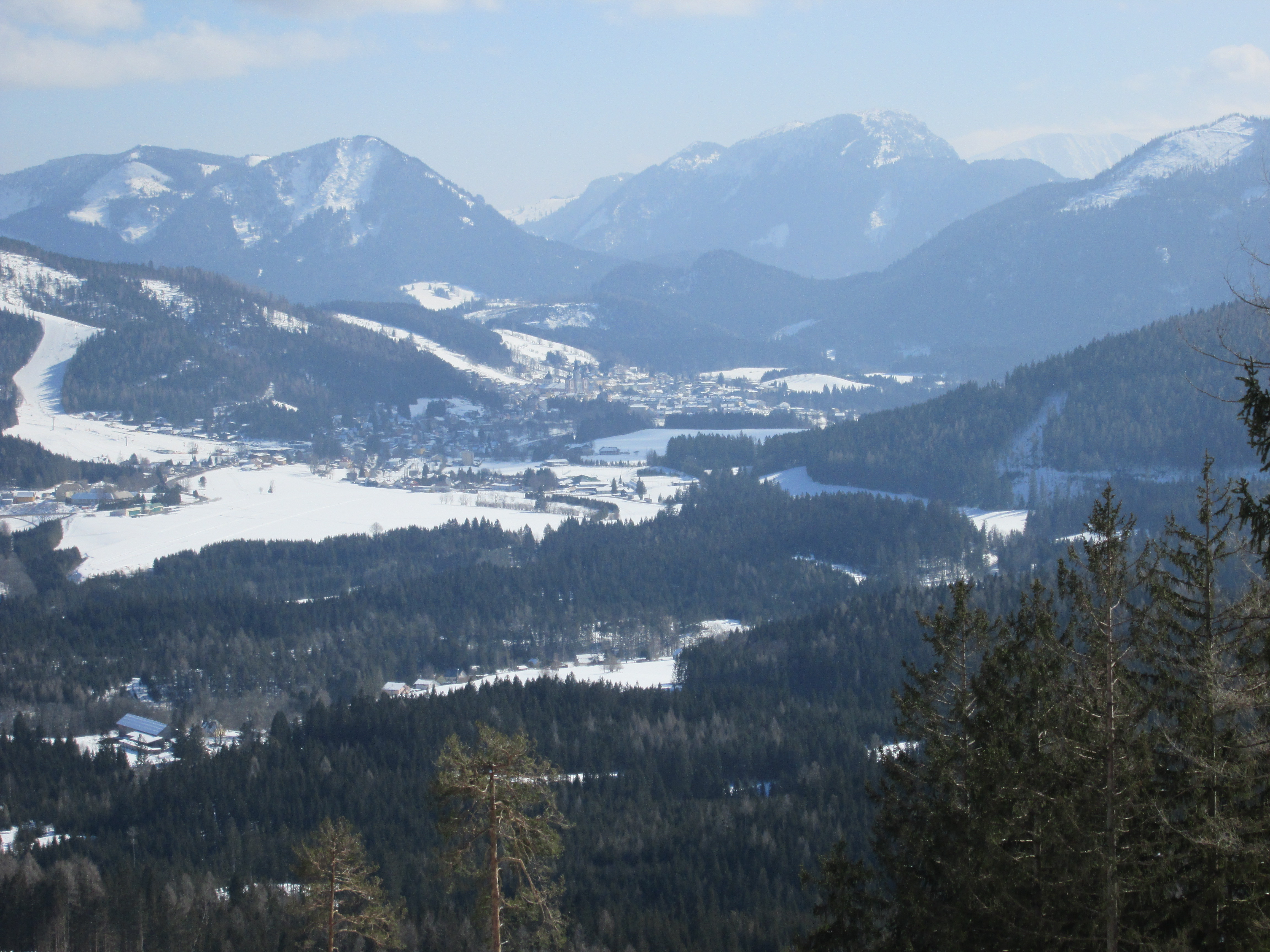 View from Gemeindealpe in Mitterbach am Erlaufsee to Mariazell